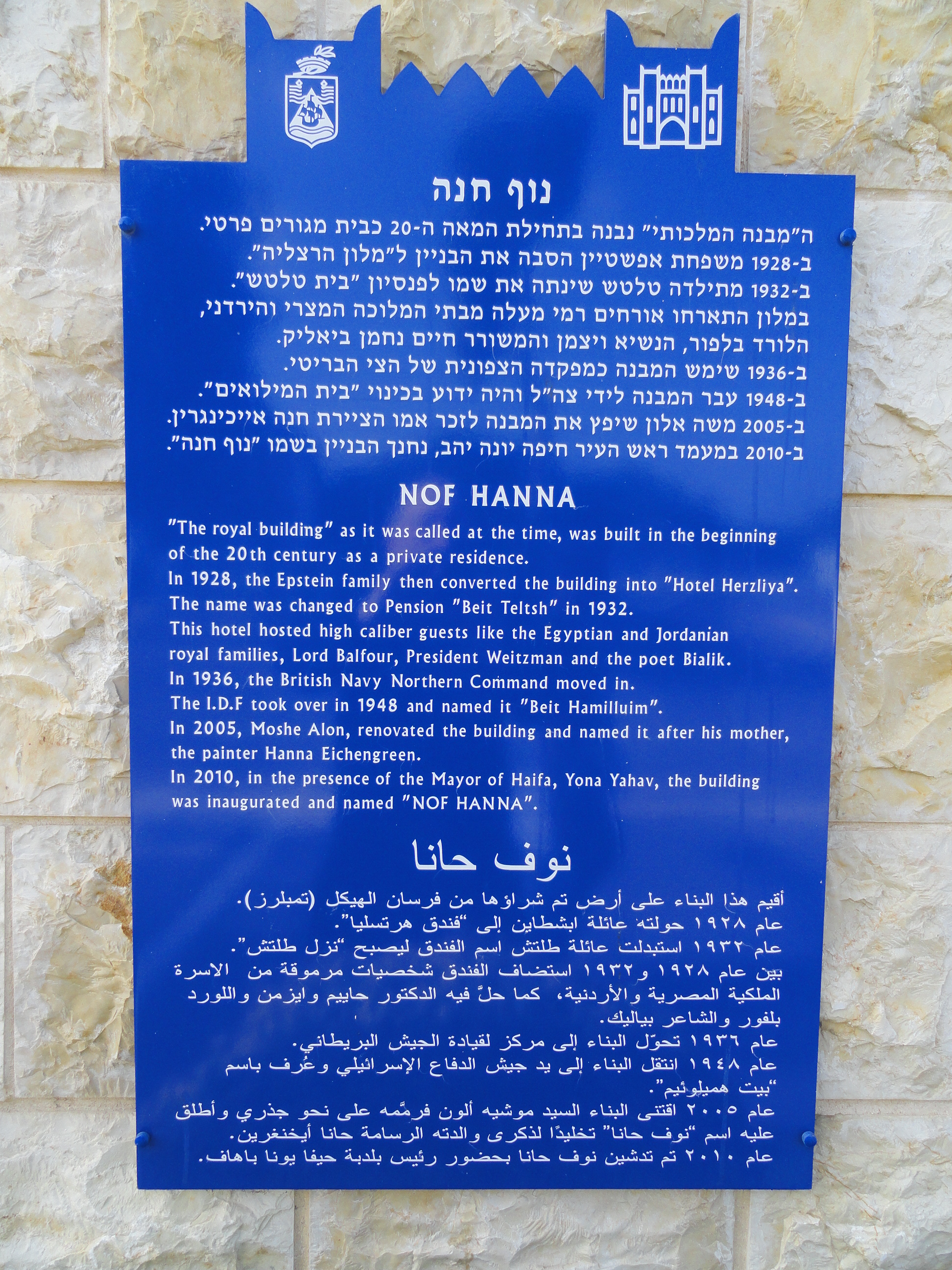 Nof Hanna, one of the first house on Mount Carmel - Haifa (Israel)